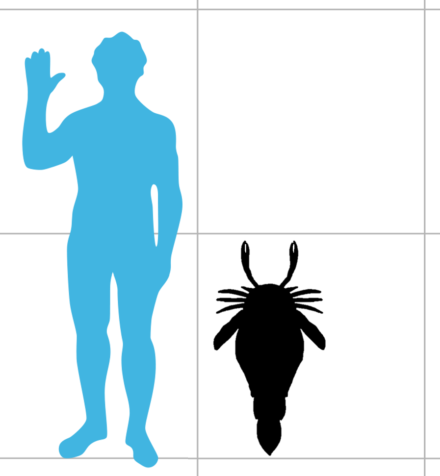 Size comparison of Ciurcopterus ventricosus and a human. Used and the human silhouette from